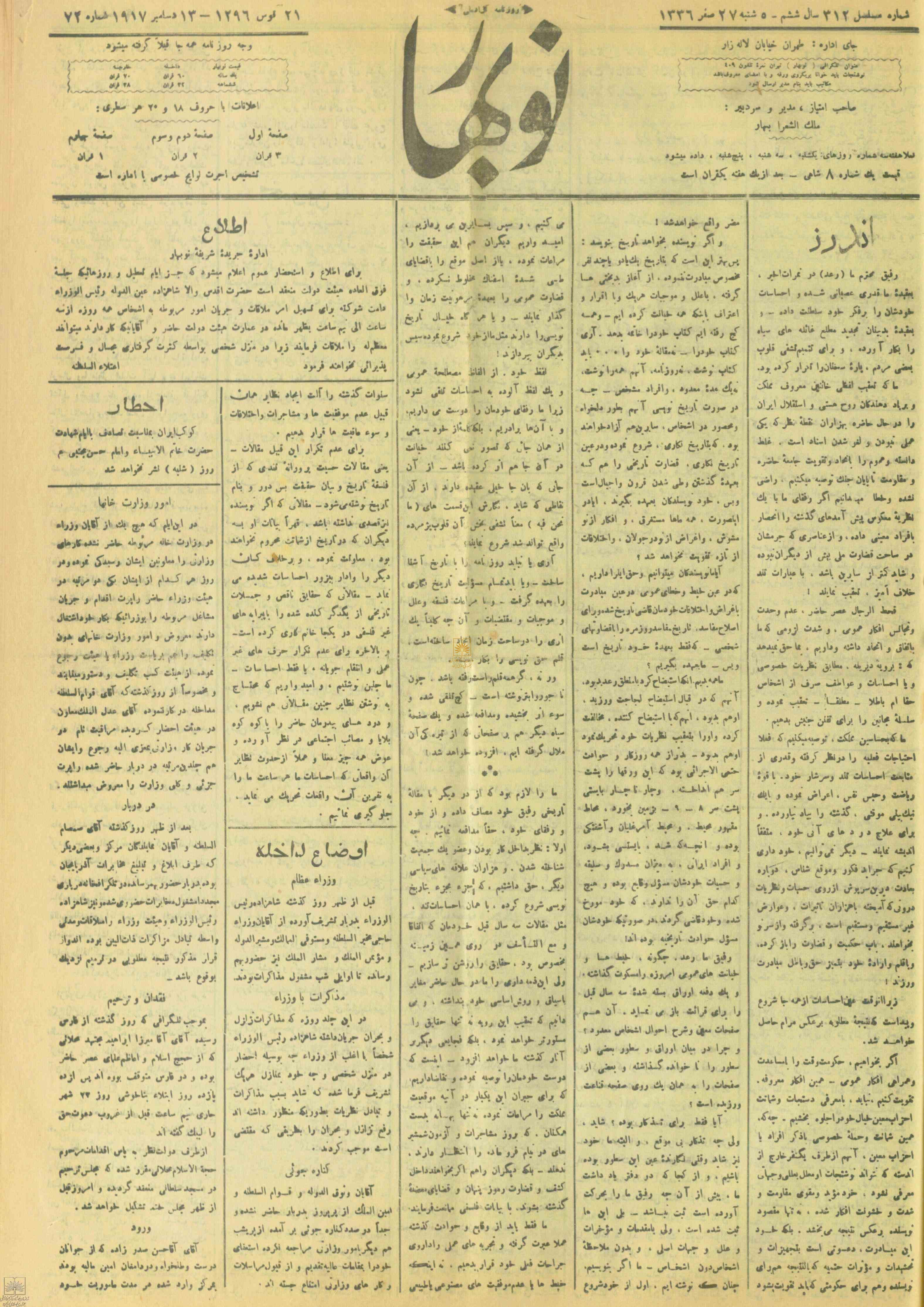 Front page of Nobahar Newspaper, Number 74, December 13, 1917